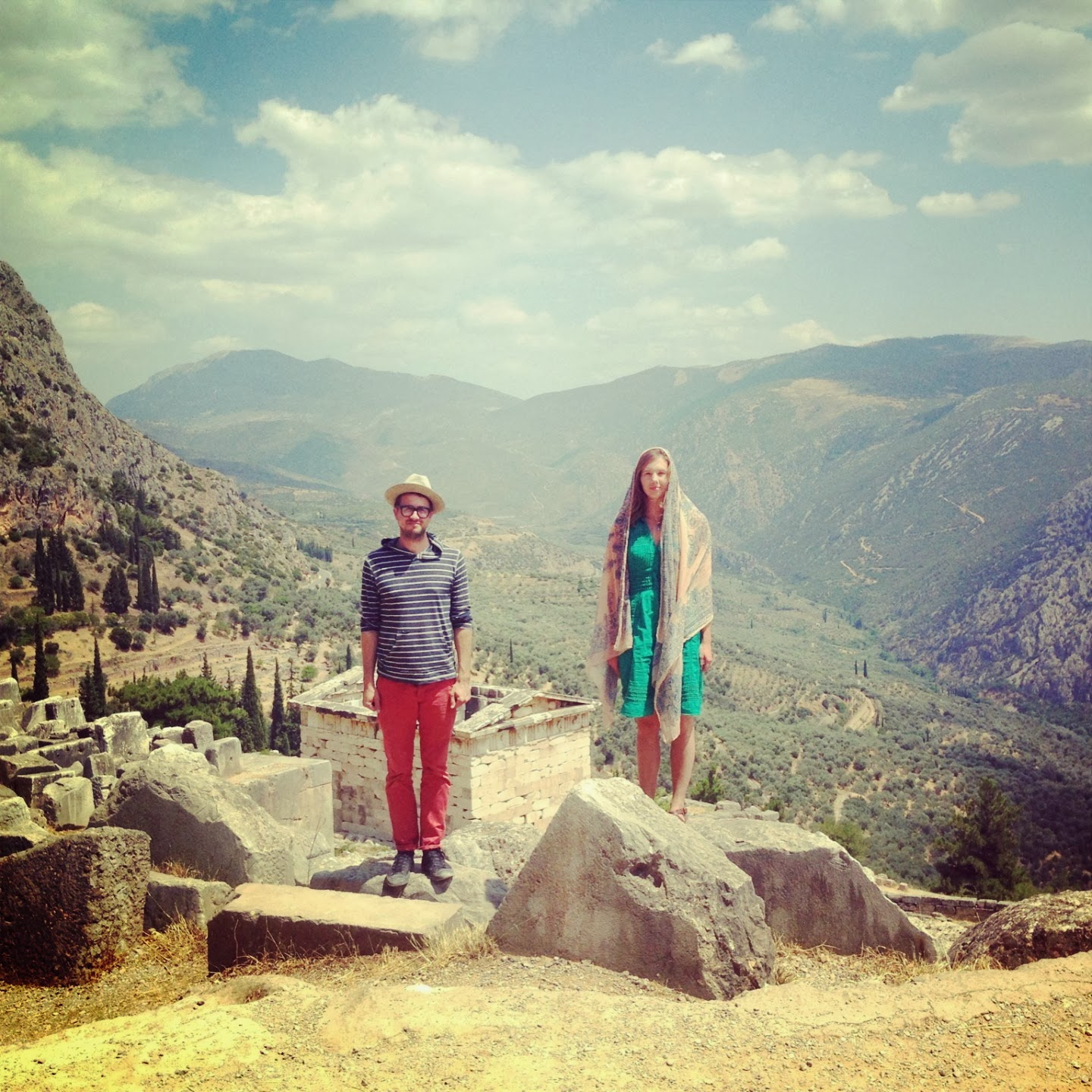 KCNCO trip